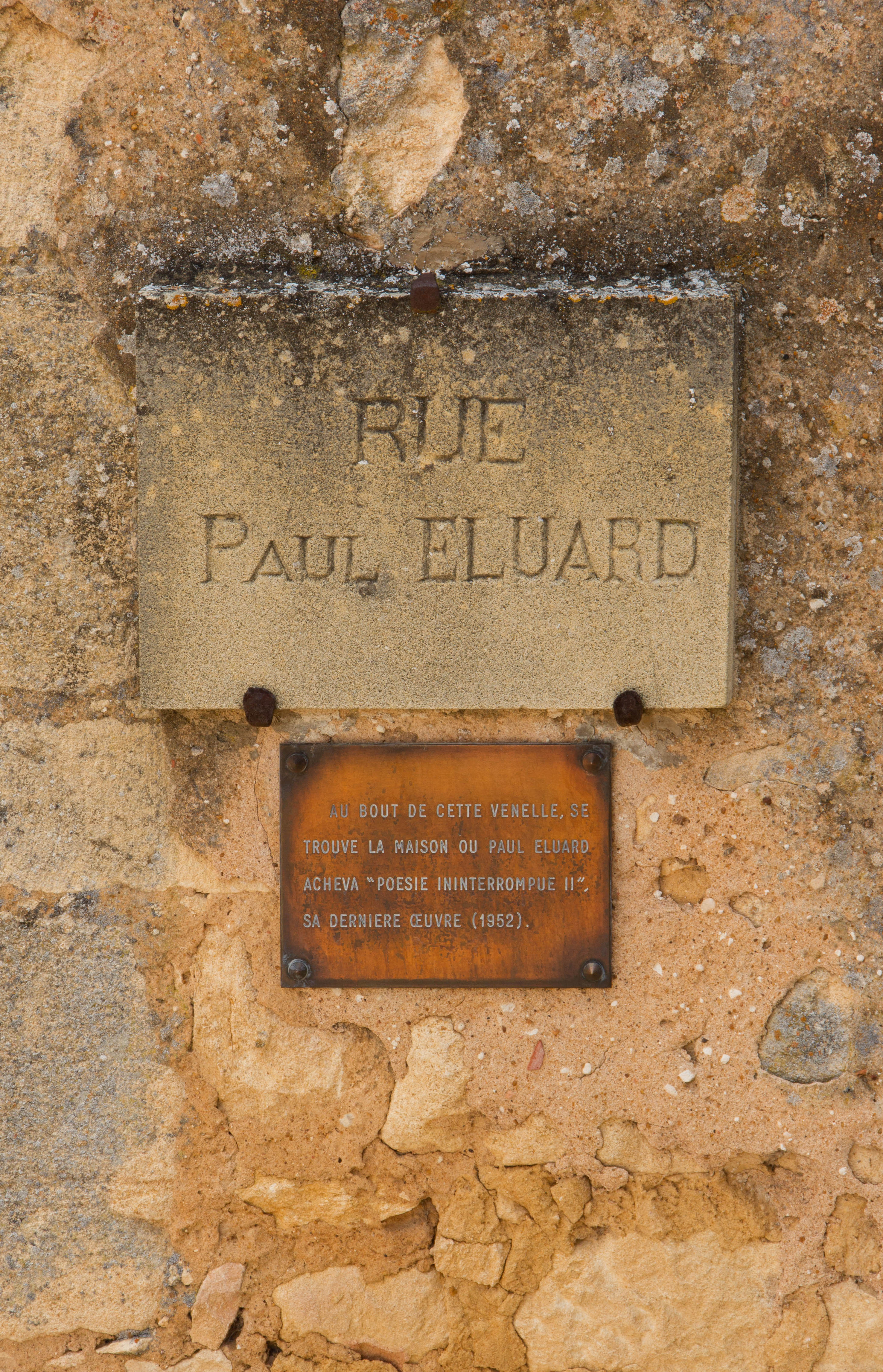 "Here worked" plaque, rue Paul Eluard, Beynac-et-Cazenac, Dordogne, France.